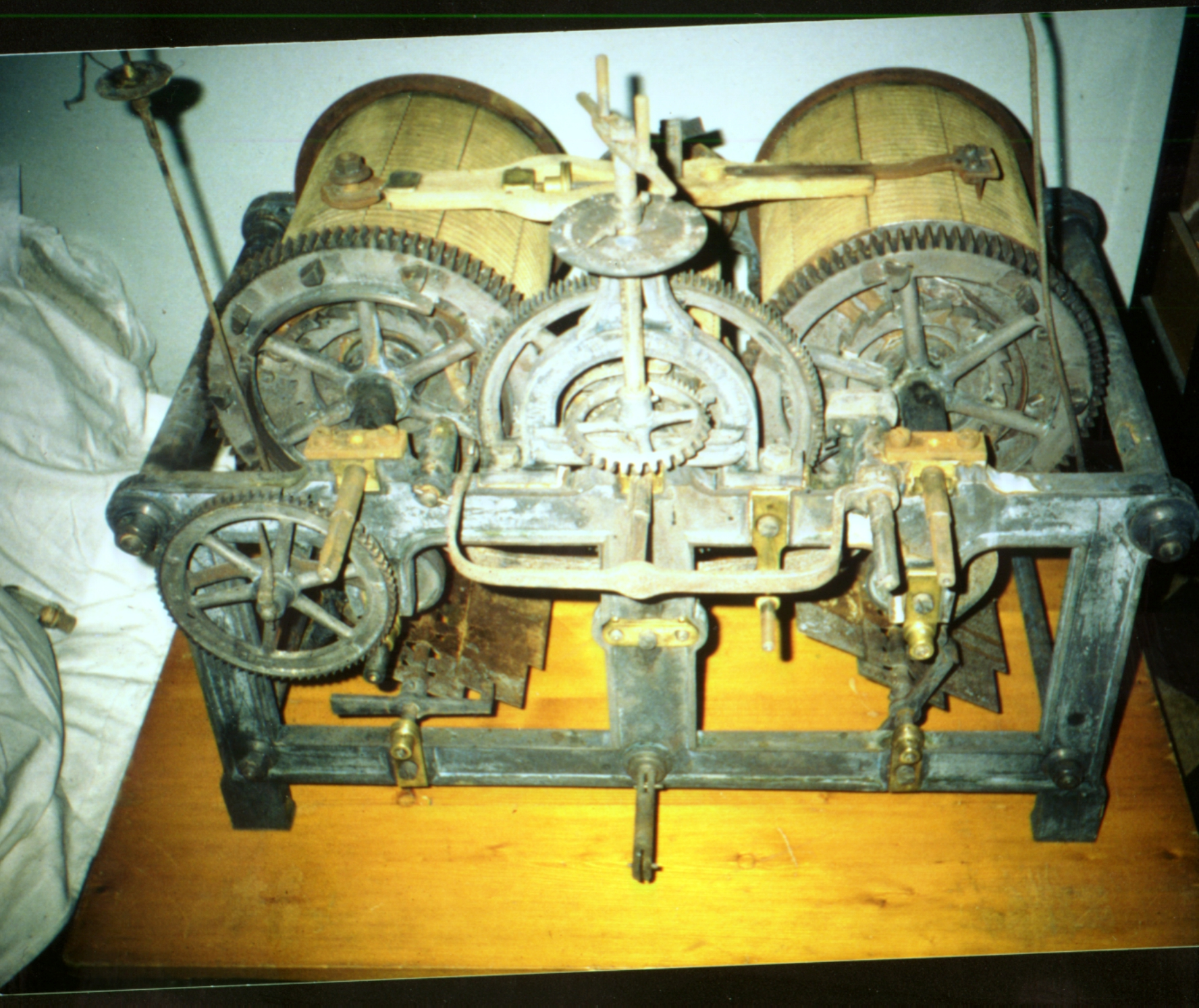 Die Räderuhr von Zell aus dem Jahre 1872, heute im Stadtmuseum Neuburg.